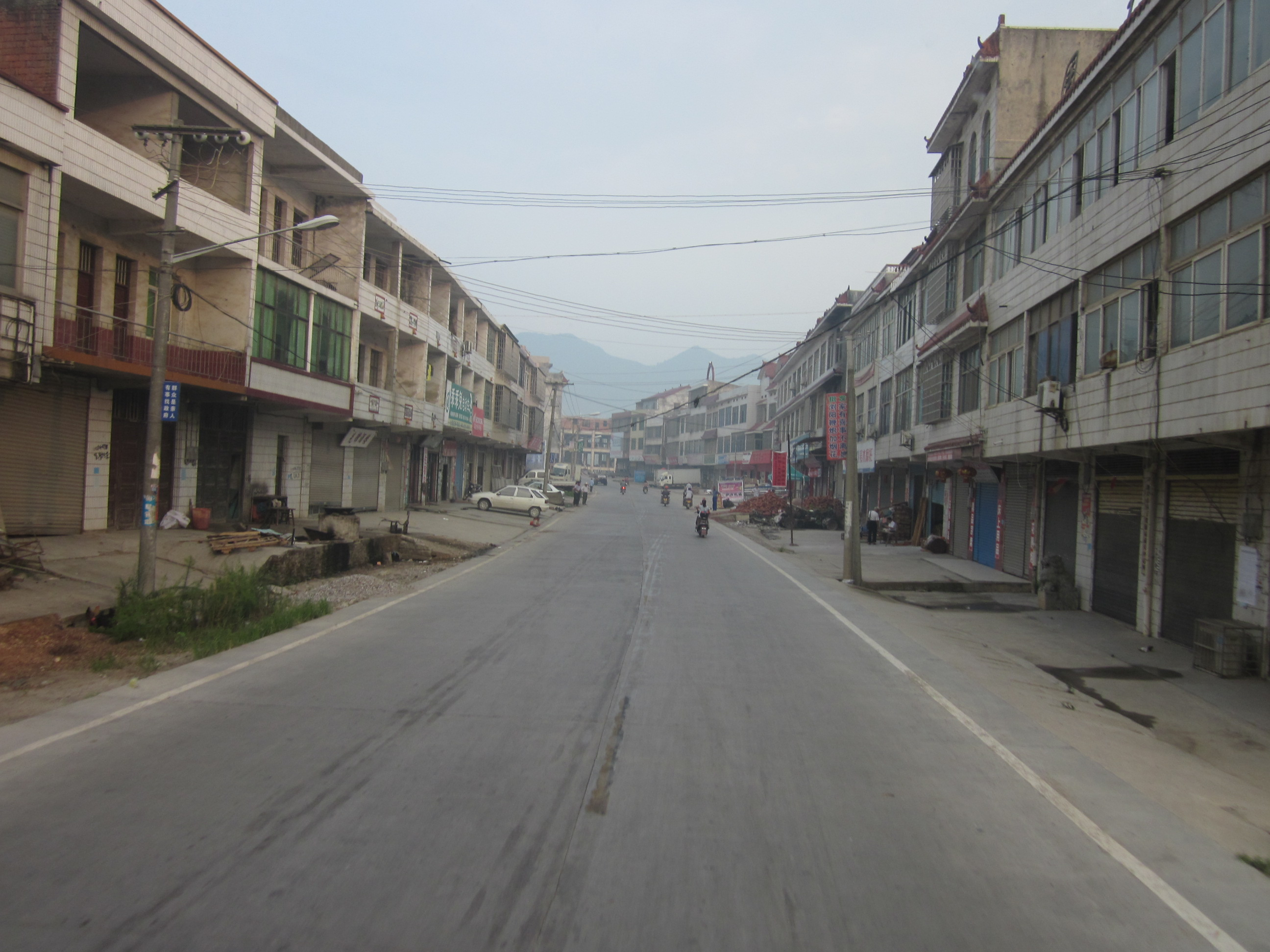 Hutian Town(simplified